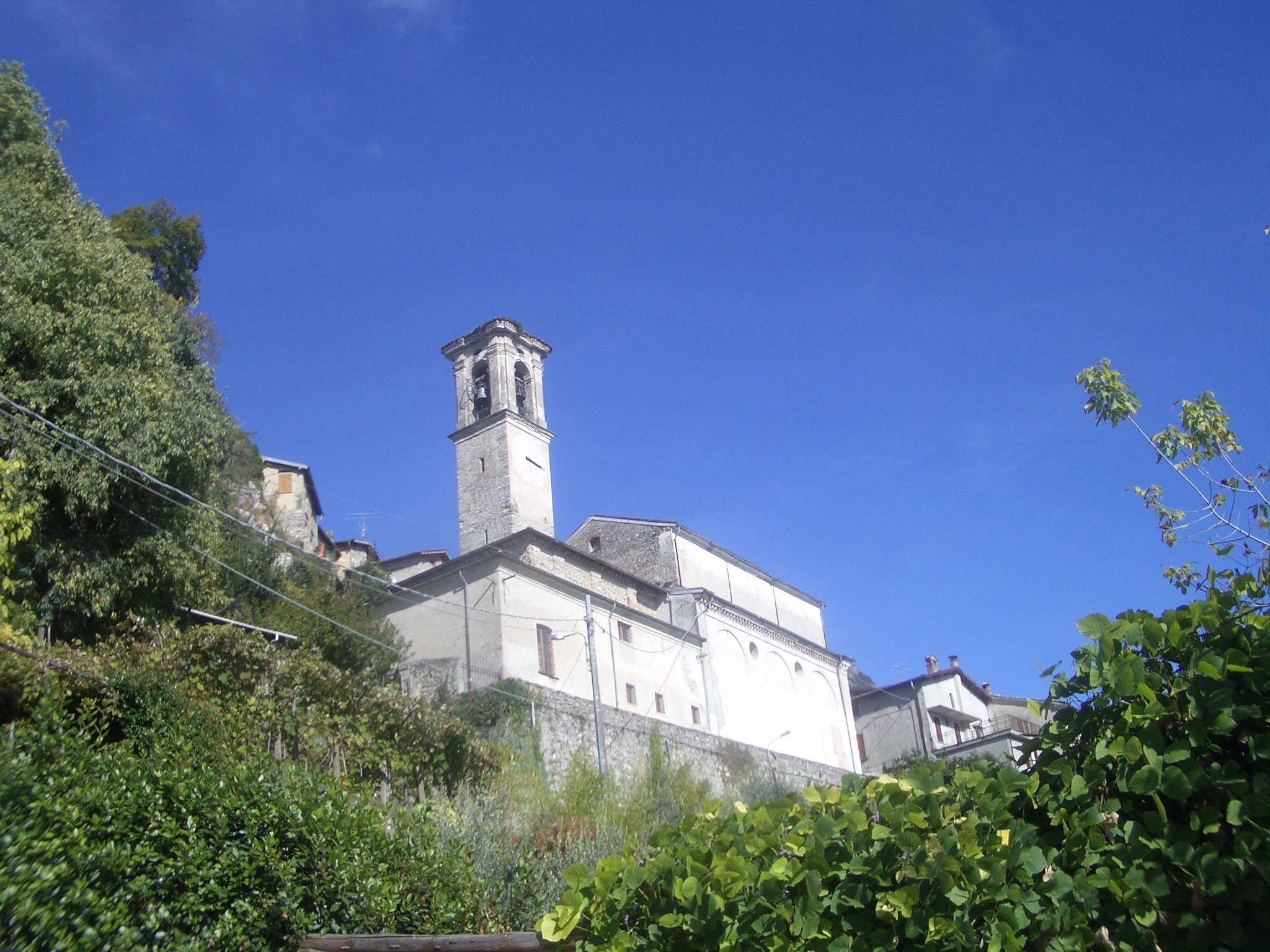 Castello Valsolda, San Martino parish church